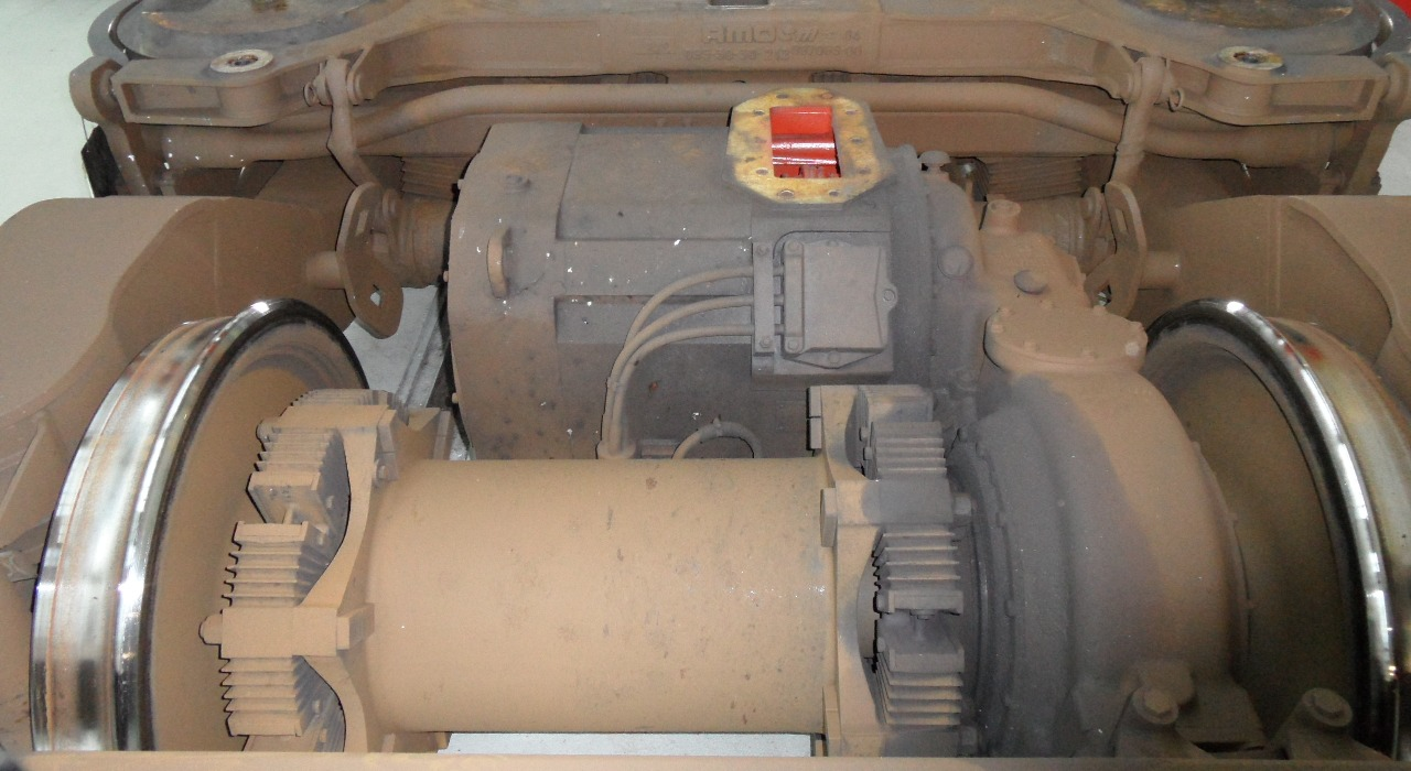 Quille drive of a VIRM electric multiple unit owned by the Dutch Railways (NS)